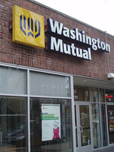 A Washington Mutual in Naperville, Illinois prior to bankruptcy (2007)